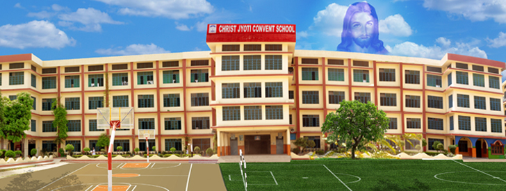 cjcschool.jpg